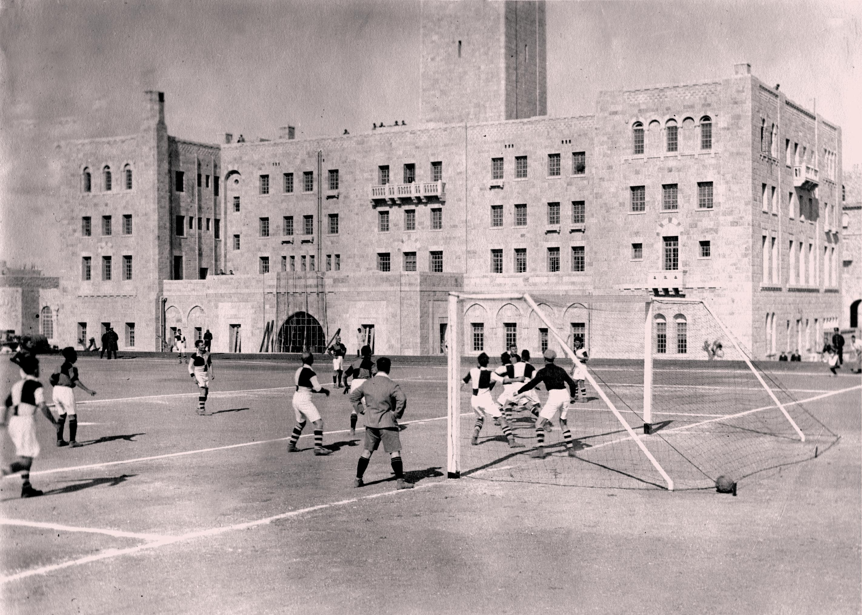 The first soccer match on the Y.M.C.A. athletic field in Jerusalem: finals of the Palestine police.